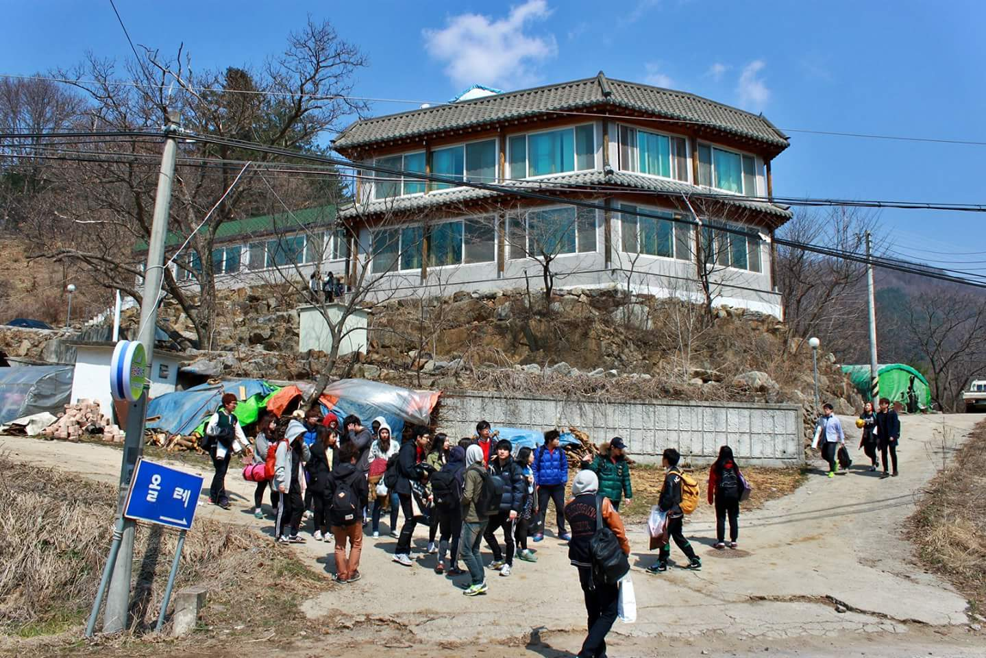 Students arrived at place of MT.